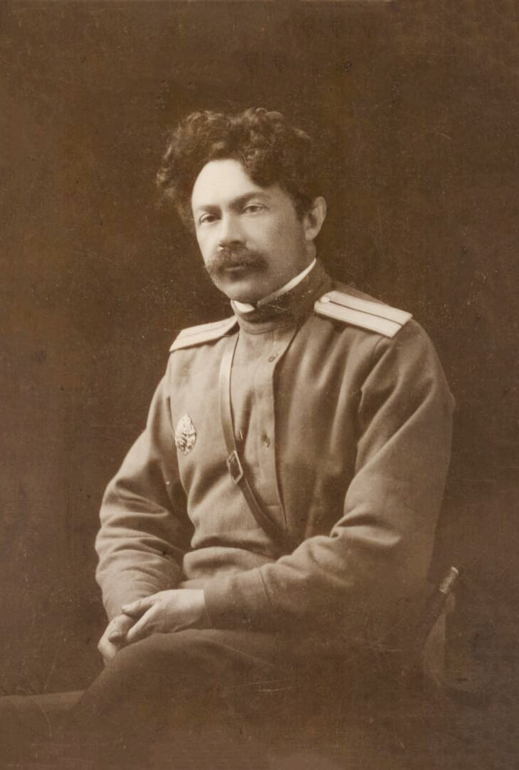 Shaul Tchernichovsky military medic тituljarny sovetnik rank 1915